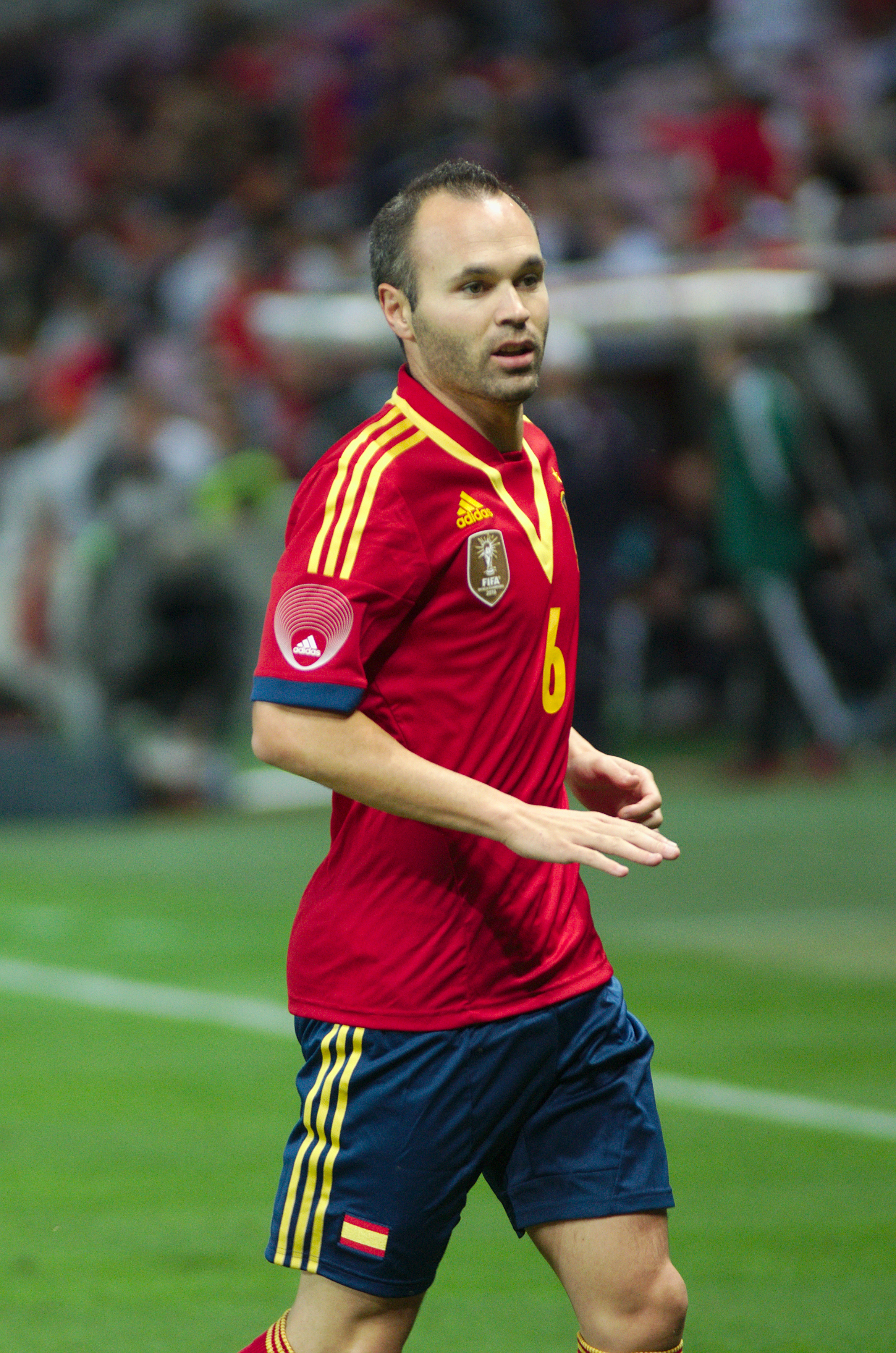 Spain - Chile - 10-09-2013 - Geneva - Andres Iniesta